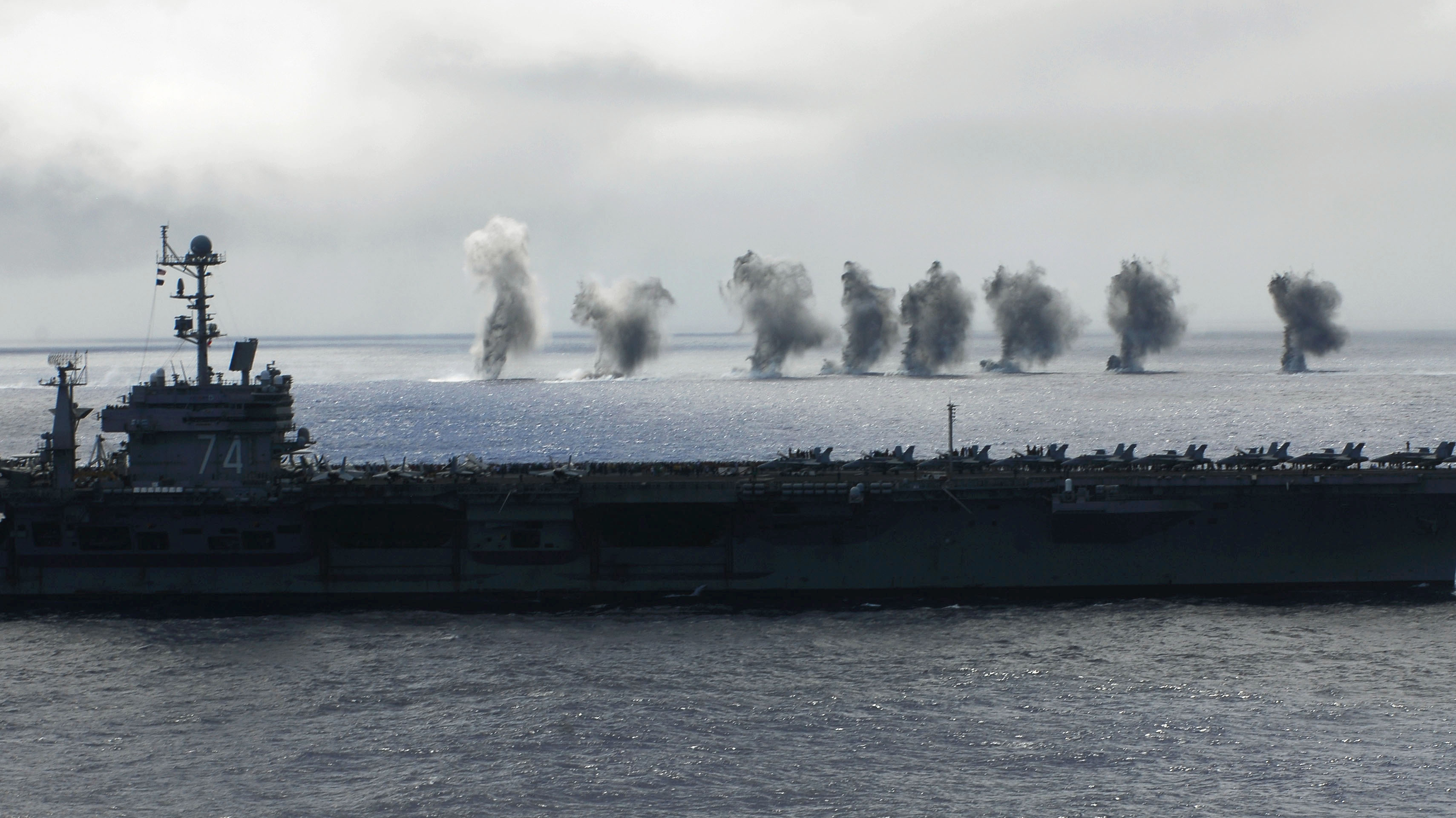 PACIFIC OCEAN (Aug. 24, 2007) - Water sprays up after two F/A-18F Super Hornets, from the "Black Knights" of Strike Fighter Squadron (VFA) 154, drop 500-pound bombs during an air power demonstration aboard Nimitz-class aircraft carrier USS John C. Stennis (CVN 74). During the transit across the Pacific Ocean, Stennis is hosting a Tiger Cruise for service members' family and friends who are invited to get underway with the ship. Stennis is returning to the United States after a 7.5-month-long deployment promoting peace, regional cooperation and stability and supporting the global war on terrorism. U.S. Navy photo by Mass Communication Specialist 3rd Class Paul J. Perkins (RELEASED)